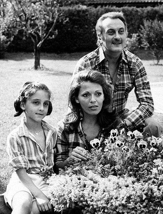 Italian singer and double bass player Tata Giacobetti (Giovanni Giacobetti), member of the band Quartetto Cetra, posing in a park with his wife, Italian actress Valeria Fabrizi and his daughter Giorgia Giacobetti. Rome.